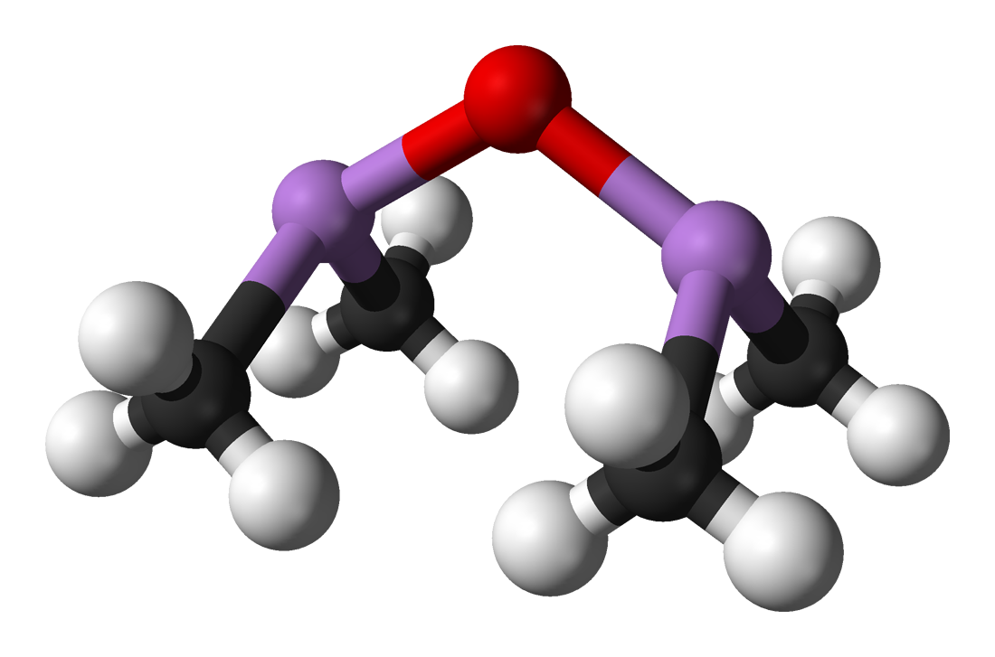 Ball-and-stick model of the cacodyl oxide molecule, [(CH3)2As]2O.